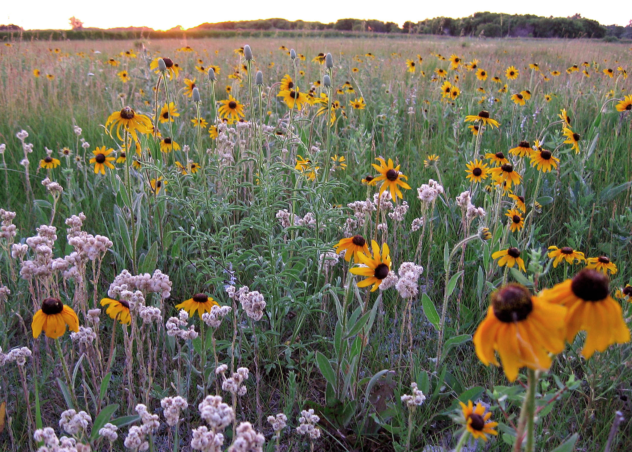 Photo Credit: Gary Eslinger/USFWS